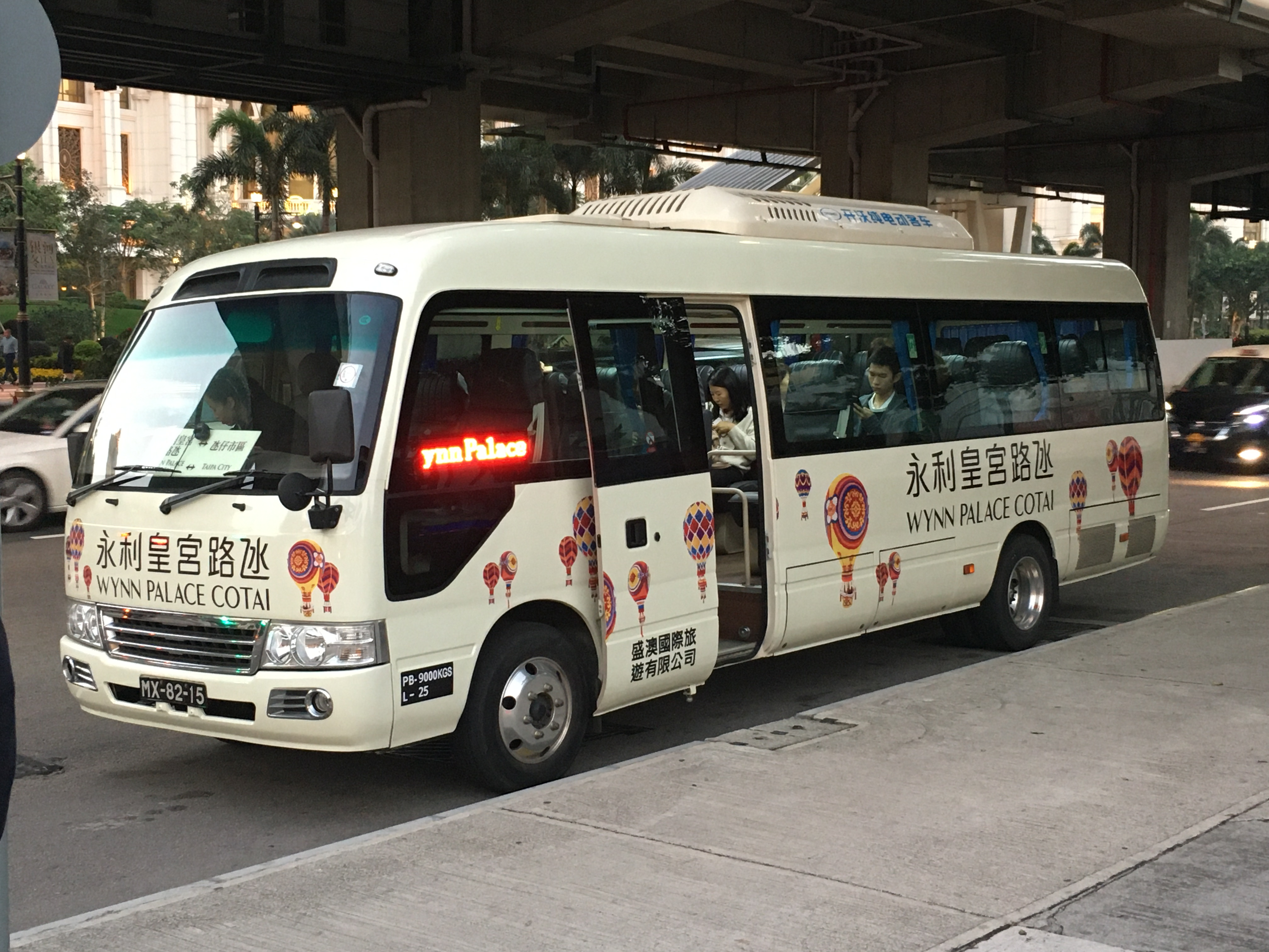 中文（香港）: This photo is taken in Pai Kok Station.